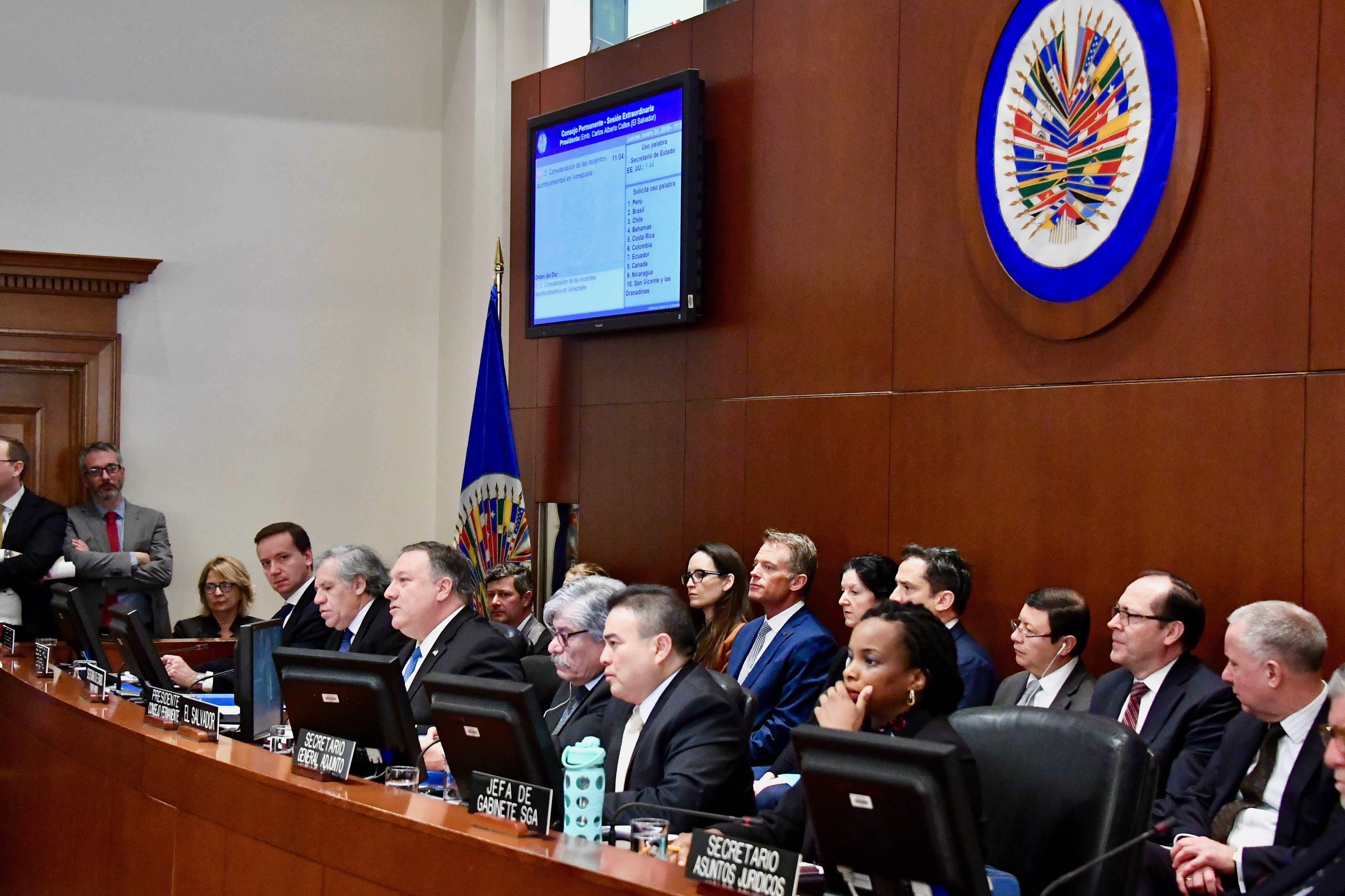 U.S. Secretary of State Michael R. Pompeo delivers remarks at a special meeting of the Permanent Council, at the Organization of American States, in Washington, D.C., on January 24, 2019. [State Department photo by Michael Gross/ Public Domain]